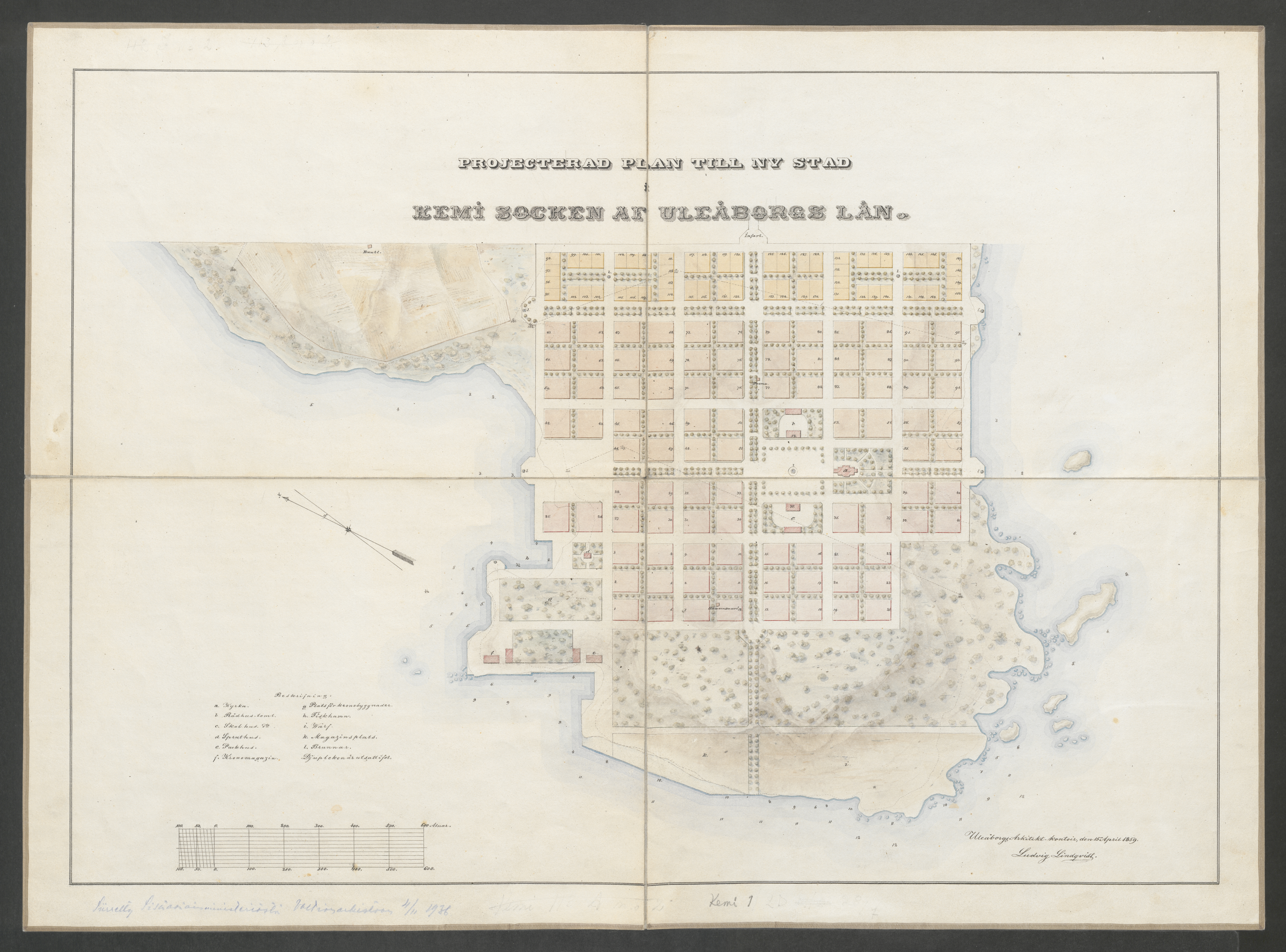 Ludvig Lindqvist's 1859 plan for Kemi, a new town in the Oulu province. Kemi was established in 1869.